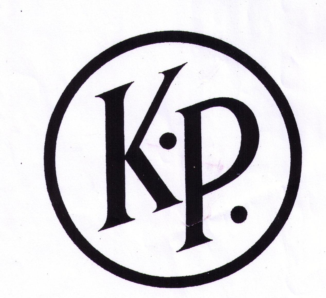 Photograph from Kempthorne Prosser Annual report of the 1950's. It adds value and back up to information